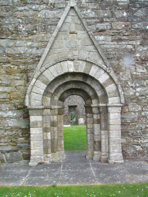 Romanesque Doorway Killishen This is one of the finest examples of this type of doorways in Ireland. Dated around 1150-1160, this Romanesque Doorway is one of a small number in Ireland with a triangular gable above the archway. It's located in the entrance to Killishen Church.